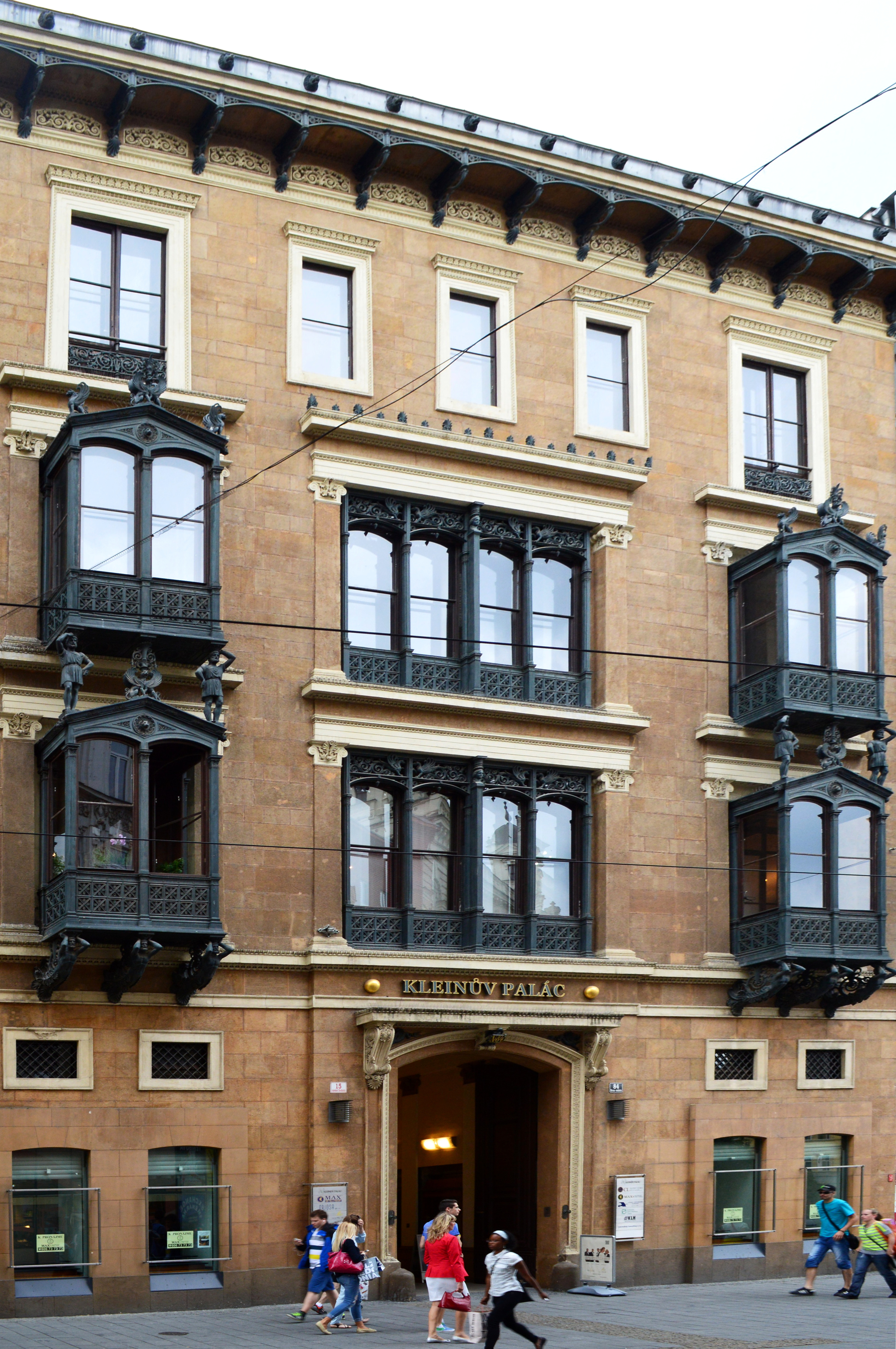 Brno is the second largest city in the Czech Republic by population and area, the largest Moravian city, and the historical capital city of the Margraviate of Moravia. Brno is the administrative centre of the South Moravian Region and lies at the confluence of the Svitava and Svratka rivers. The city was founded about a thousand years ago, it received city status in the year 1243, and for centuries it served as the capital city of Moravia, until 1948 when the autonomy of Moravia was abolished by the communists. The city flourished mainly during the nineteenth century. Today's Brno is a mixture of many different architecture styles. The most visited sights of the city include the Špilberk Castle and fortress and the Cathedral of Saints Peter and Paul on Petrov Hill, two medieval buildings that dominate the city skyline and are often depicted as its traditional symbols. The other large preserved castle near the city is Veveří Castle by the Brno Dam Lake. This castle is the site of a number of legends, as are many other places in Brno. The Scotch Mist Gallery contains many photographs of historic buildings, monuments and memorials of Poland and beyond.